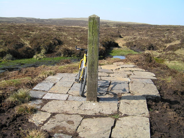 "Source of the River Severn" A spring 2008 view of the recent improvements at the end of the Source of the Severn footpath.